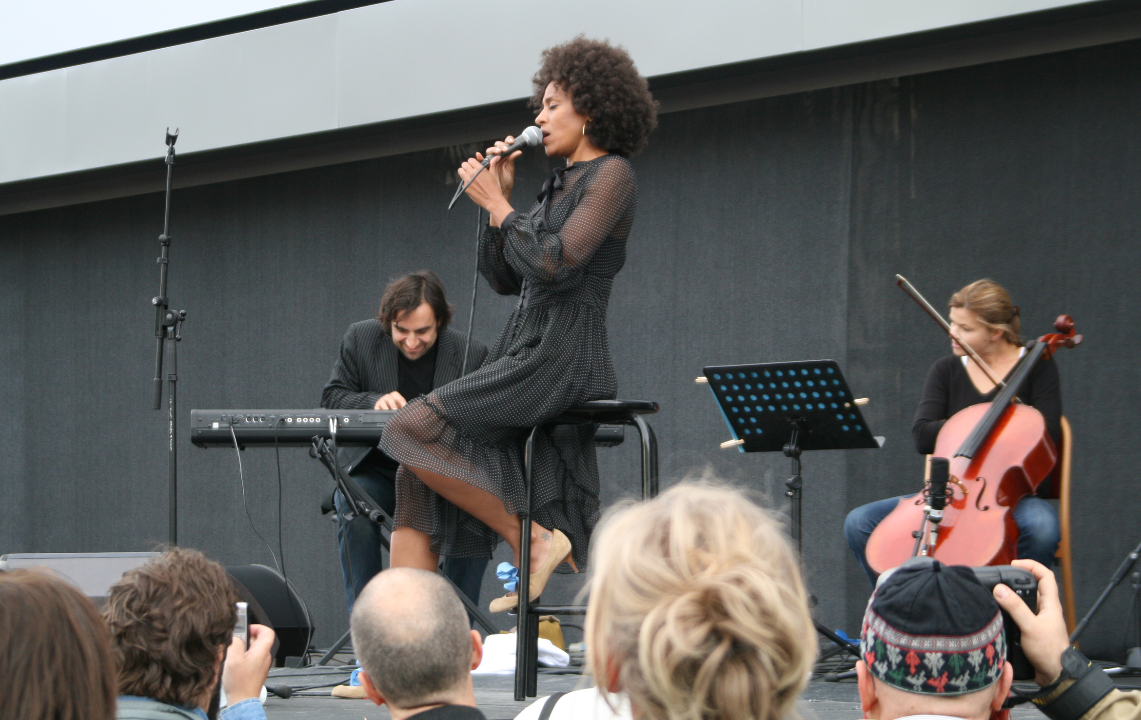 Singer Malia at the Rathausplatz in Vienna; keys: André Manoukian, cello: Mathilde Sternat (Jazz-Fest Wien)